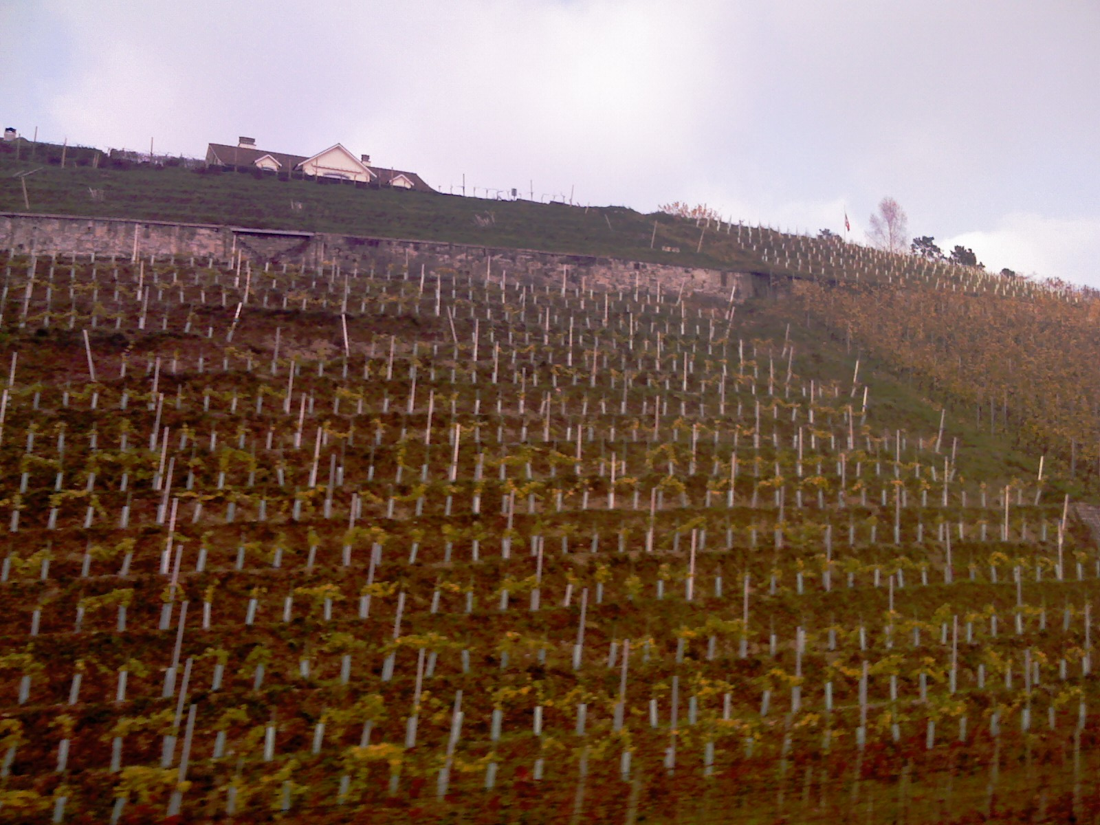 Stäfa vineyard, city in the Canton of Zurich, SwitzerlandEsperanto: Stäfa vitejo, urbo en Kantono Zuriko, Svislando